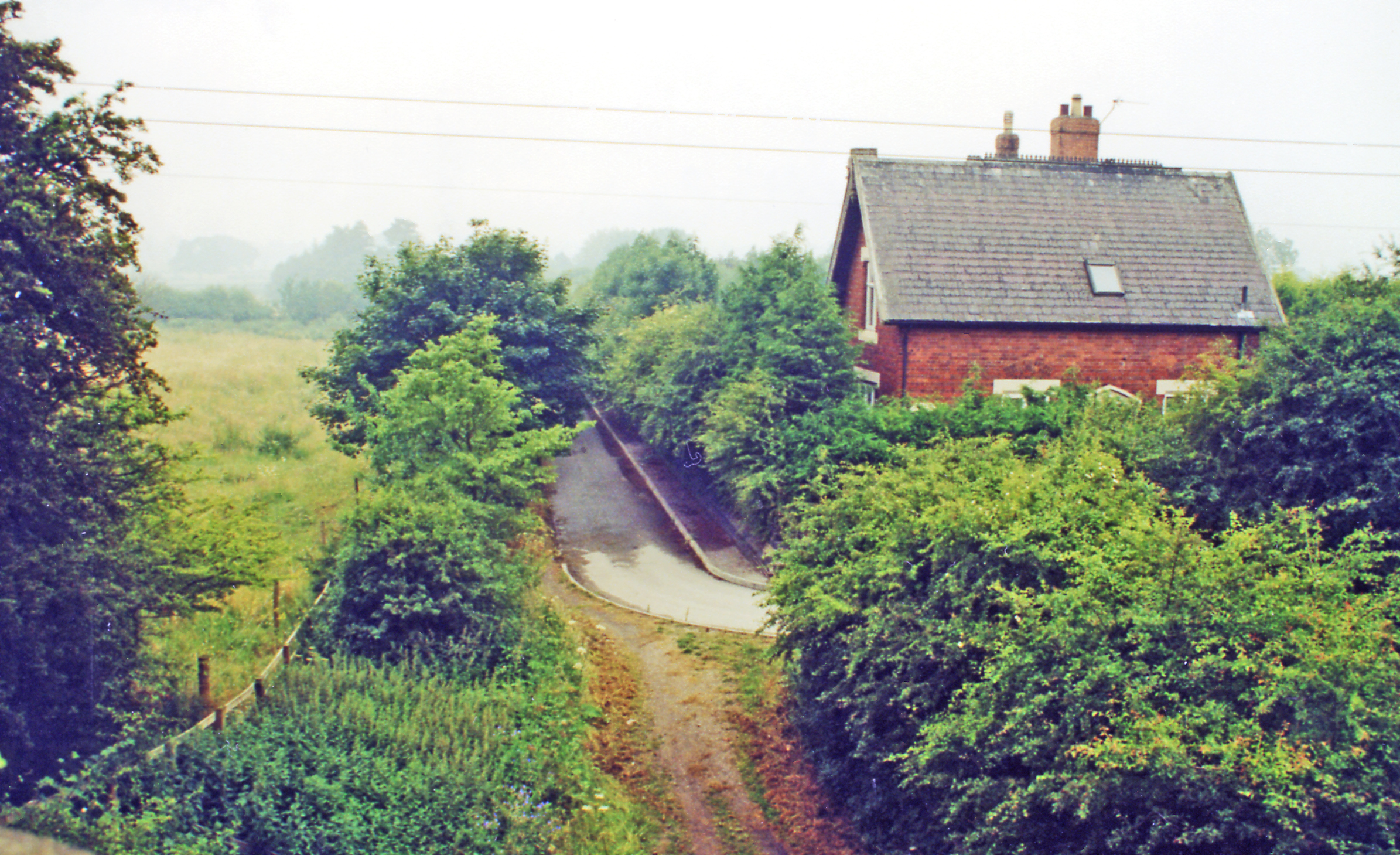 Former station for Kirklington & Edingley, 2000. View westward, towards Mansfield: ex-Midland line, Mansfield - Southwell - Rolleston Junction. Passenger services ceased Mansfield - Southwell back on 12/8/29 (Southwell - Rolleston Junction 15/6/59), but through goods called here until the line was closed completely from 25/6/64. The station house is well-preserved